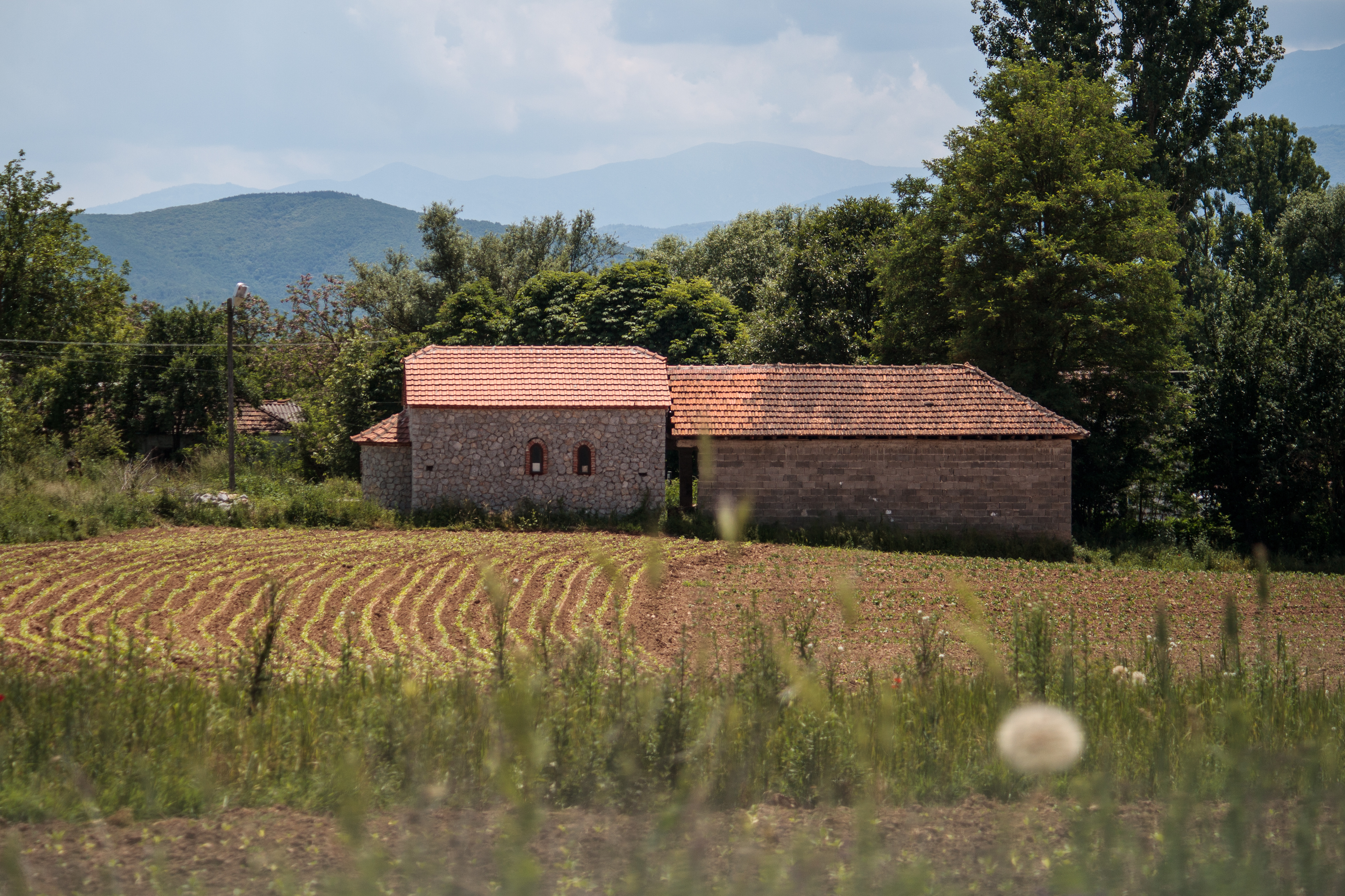 Church St. Elijah in the village Sladuevo